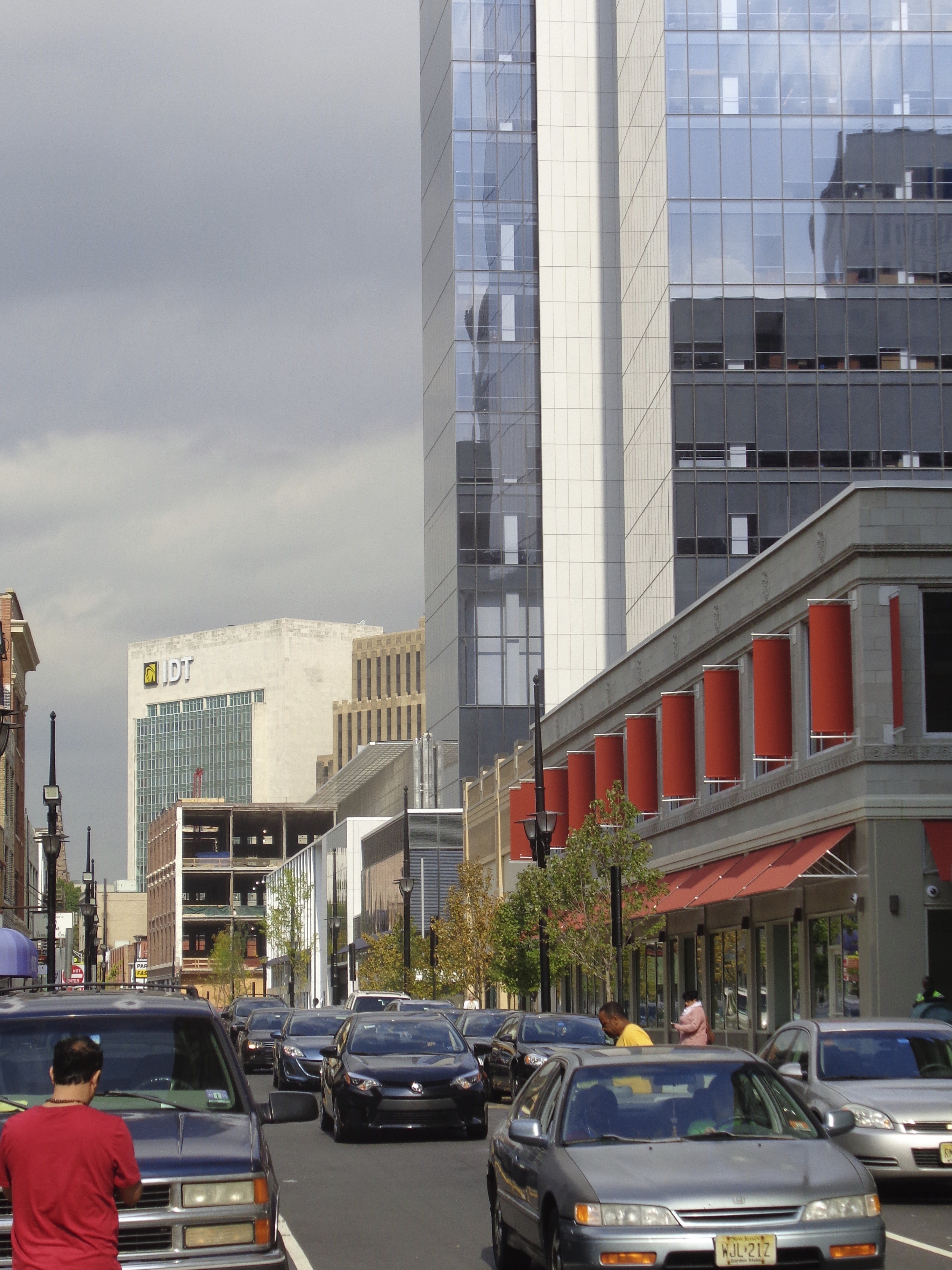 Halsey Street Newark looking north to Prudential Tower and Hahne & Company building